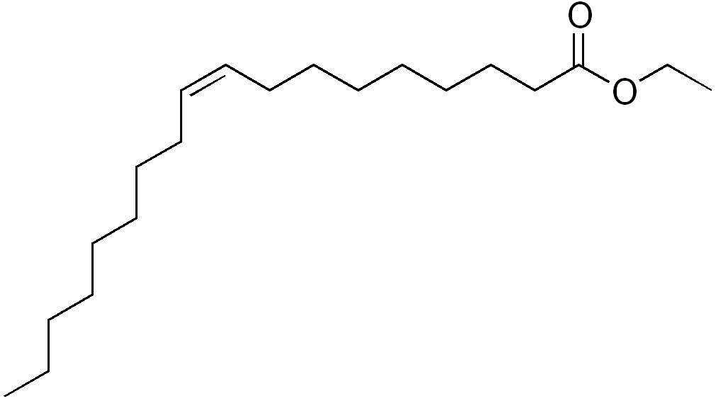 Chemical structure of ethyl oleate created with ChemDraw